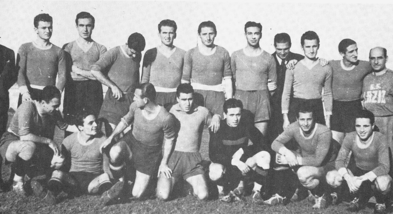 SS Lazio 1939-40 squad